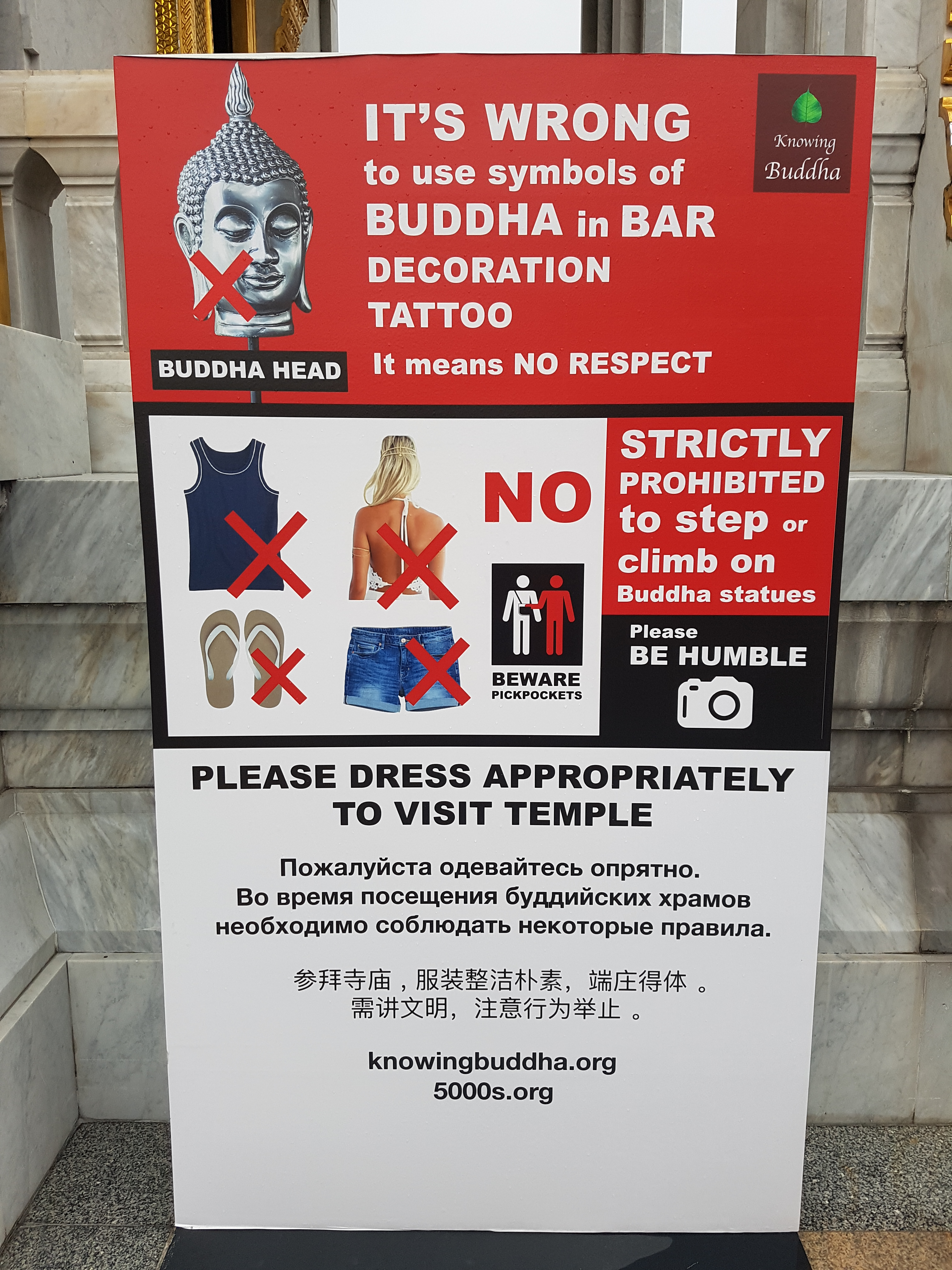 A Buddhist propaganda sign at Wat Traimit Witthayaram, a Buddhist Temple in Bangkok, Thailand.